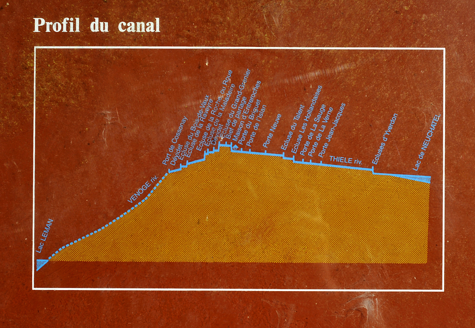 Canal d'Entreroches in the gorge of Entreroches, information board; Vaud, Switzerland. Canal profile between lake Neuchâtel and lake Geneva.